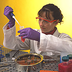 NIST materials research engineer Tammy Oreskovic deposits smooth muscle cells onto a polymer scaffold. Oreskovic and colleagues study what conditions produce the best cell growth and use a bioreactor (foreground) to test whether the resulting engineered tissues can withstand mechanical stresses similar to those produced by a beating heart. Copyright Geoffrey Wheeler This image may be used for any NIST purpose. Correct photo credit must be provided. Other organizations may use this image without charge for editorial articles that mention NIST in accompanying text or a caption. Correct photo credit must be provided. "Stock art" use requires permission and may require payment to the photographer. To receive a high resolution version send an email with the image AV number (05MSEL001) and title to . Disclaimer: Any mention of commercial products within NIST web pages is for information only; it does not imply recommendation or endorsement by NIST. Use of NIST Information: These World Wide Web pages are provided as a public service by the National Institute of Standards and Technology (NIST). With the exception of material marked as copyrighted, information presented on these pages is considered public information and may be distributed or copied. Use of appropriate byline/photo/image credits is requested.